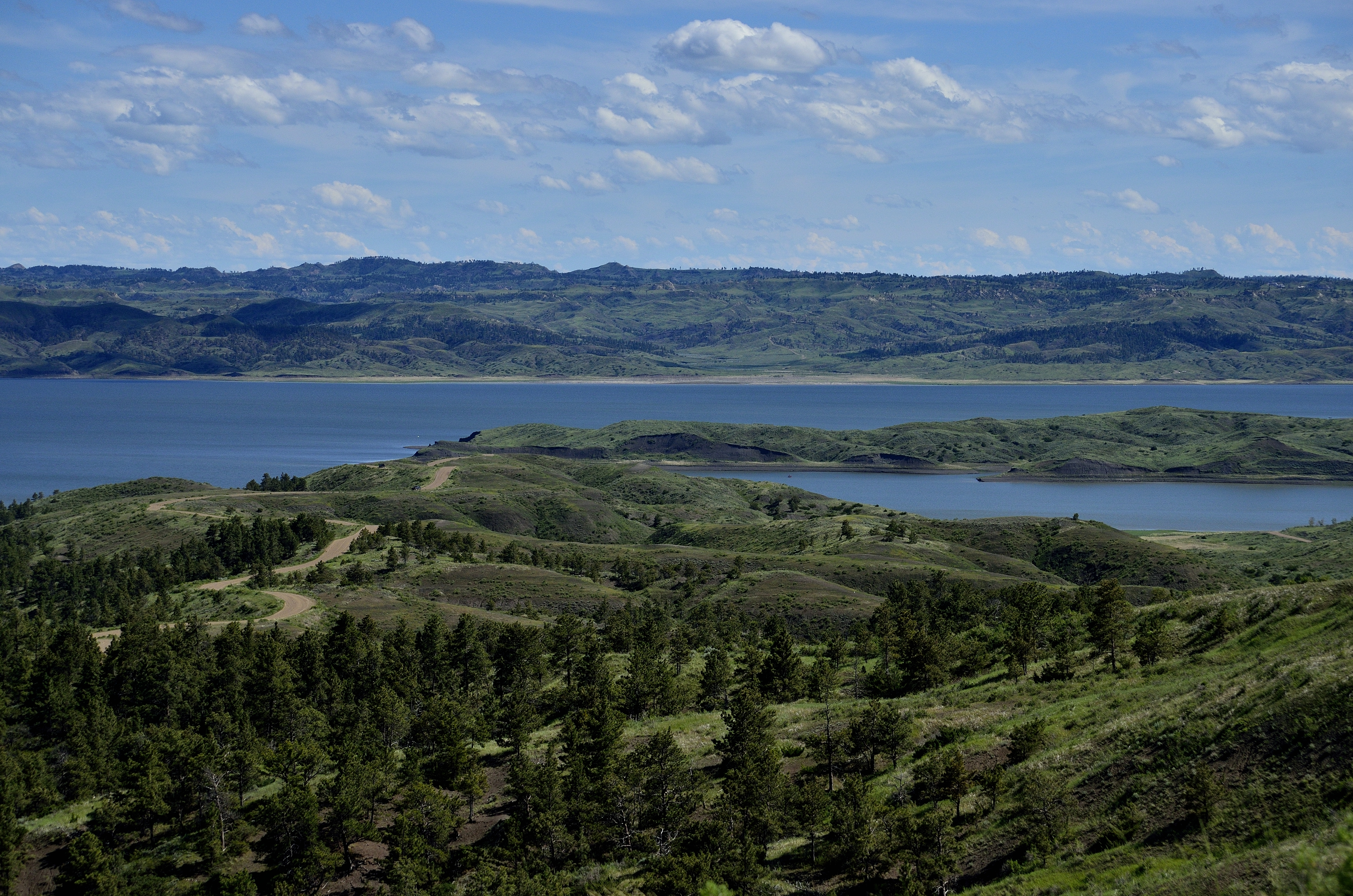 Overlooking the fortpeck lake from the charles m russell wildlife reserve.